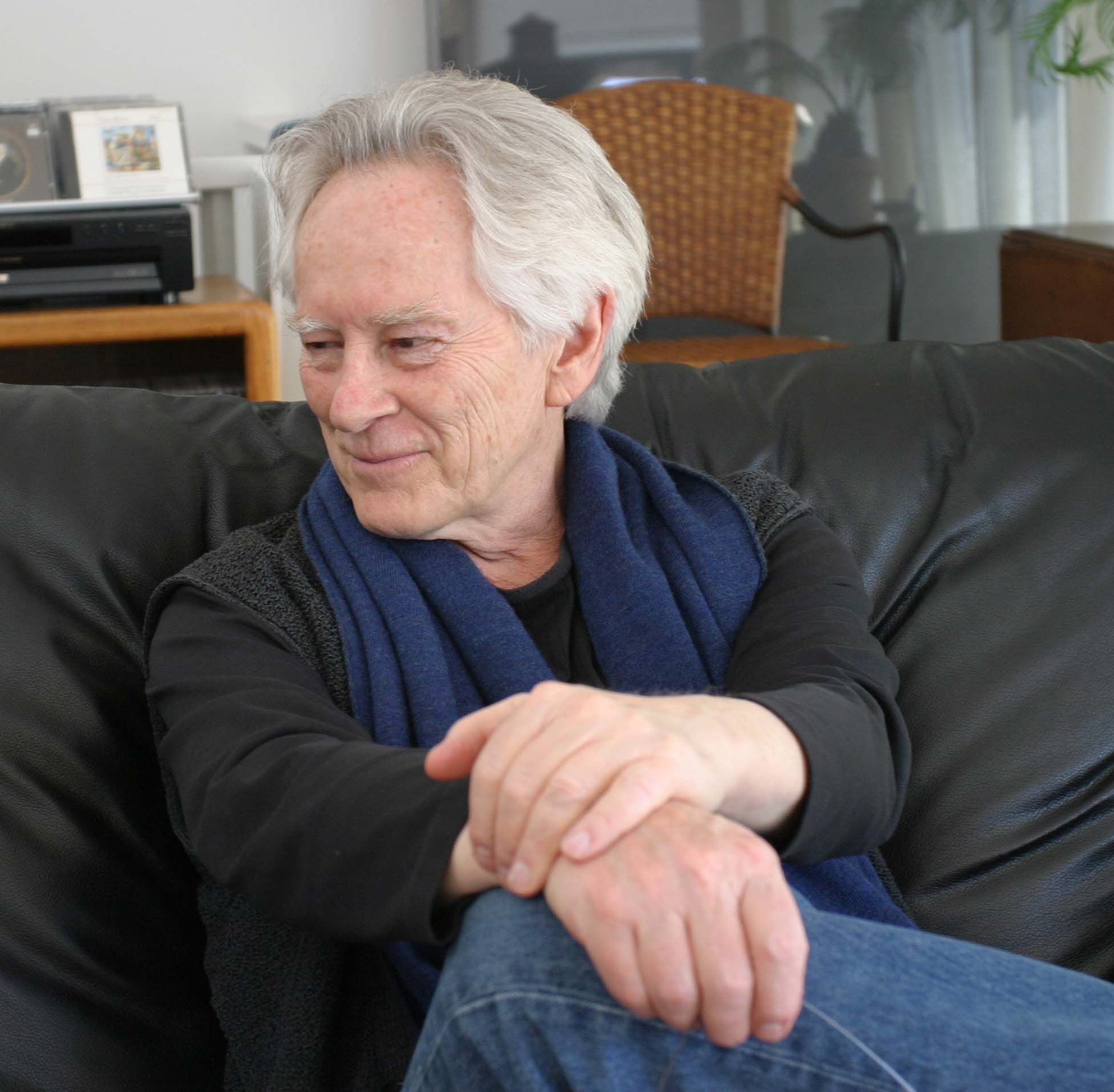 Michael McClure, photograph by Gloria Graham during the taping of Add-Verse